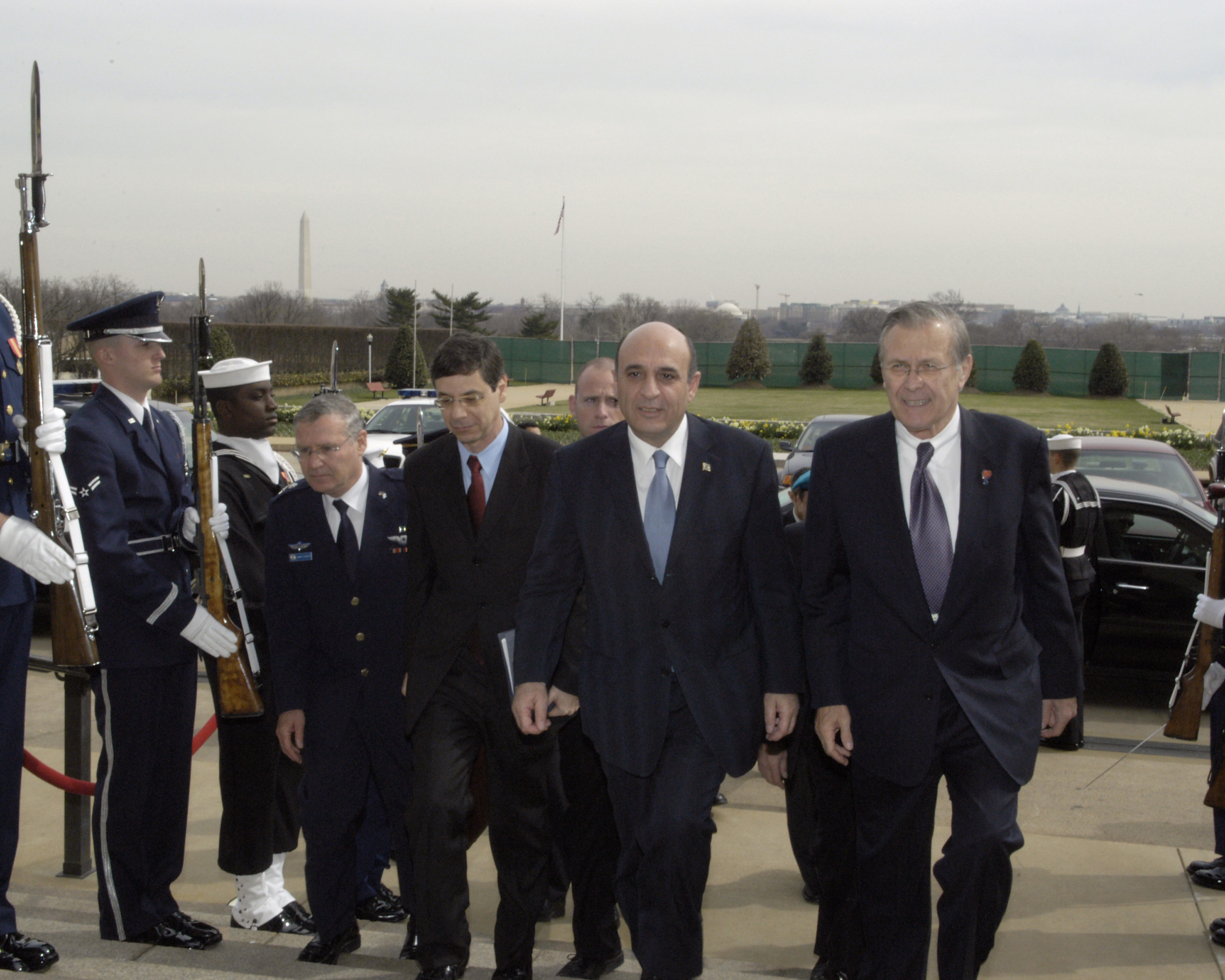 Secretary of Defense Donald H. Rumsfeld (right) escorts Israeli Minister of Defense Shaul Mofaz (center) through an honor cordon and into the Pentagon on March 30, 2005. Rumsfeld and Mofaz will meet to discuss issues of mutual interest.